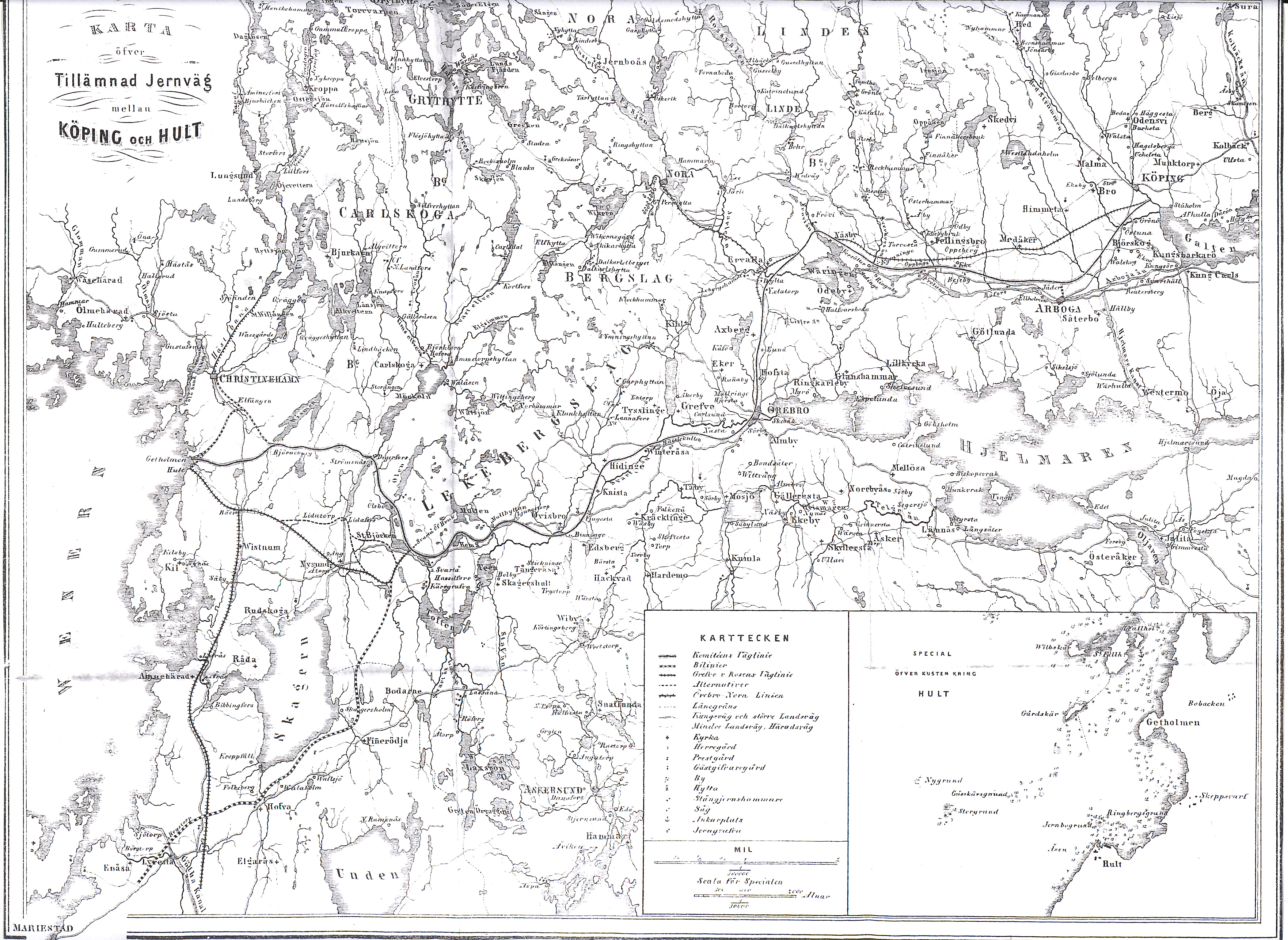 Map of the Swedish railroad between Köping and Hult 1852